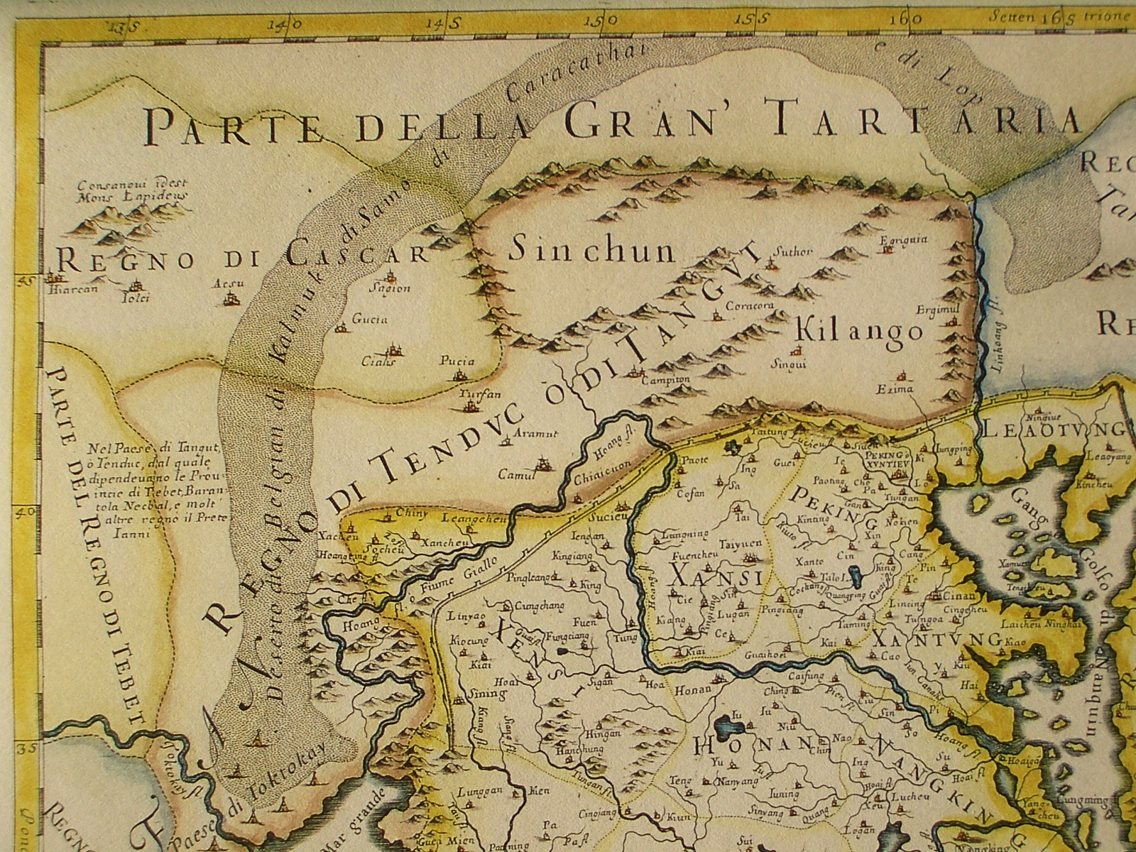 The north-western corner of a map of China (in Italian): "The Kingdom of China, presently called Catay and Mangin, divided into its principal provinces on a most precise map". The chain of cities - from Hiarcan (Yarkand) to Cialis (Karasahr) to Sucieu (Suzhou, Gansu) is probably based on Matteo Ricci's account of Bento de Gois' expedition ca. 1605.